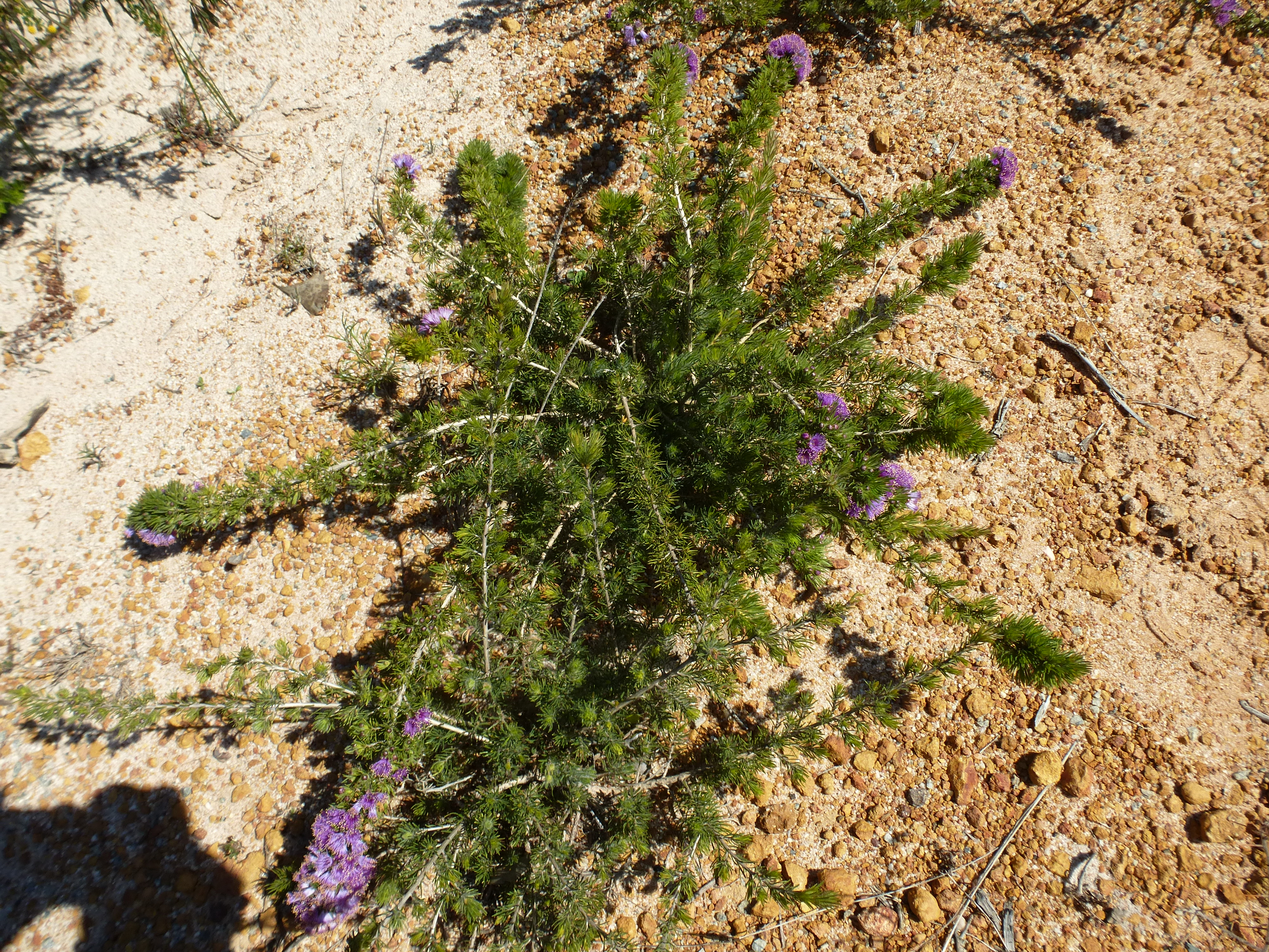 Eremaea violacea growing in Lesueur National Park.